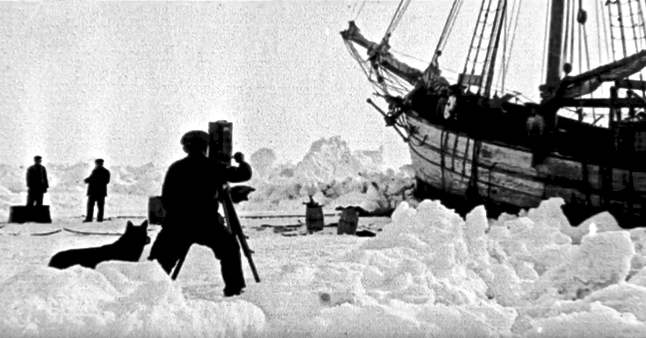 Cinematographer Sepp Allgeier (1895–1968) films the ship Loevenskiöld in May 1913 which was locked in drift ice and later got destroyed by this progressing incident. Allgeier and Bernhard Villinger (1889–1967) were part of an expedition led by polar explorer Theodor Lerner (1866–1931) based in Frankfurt am Main, Germany. It was intended to rescue the Prussian Lieutenant Herbert Schröder-Stranz (1884–1912). His death in the year before was unknown at that time. The participants of the aid expedition survived by happenstance.